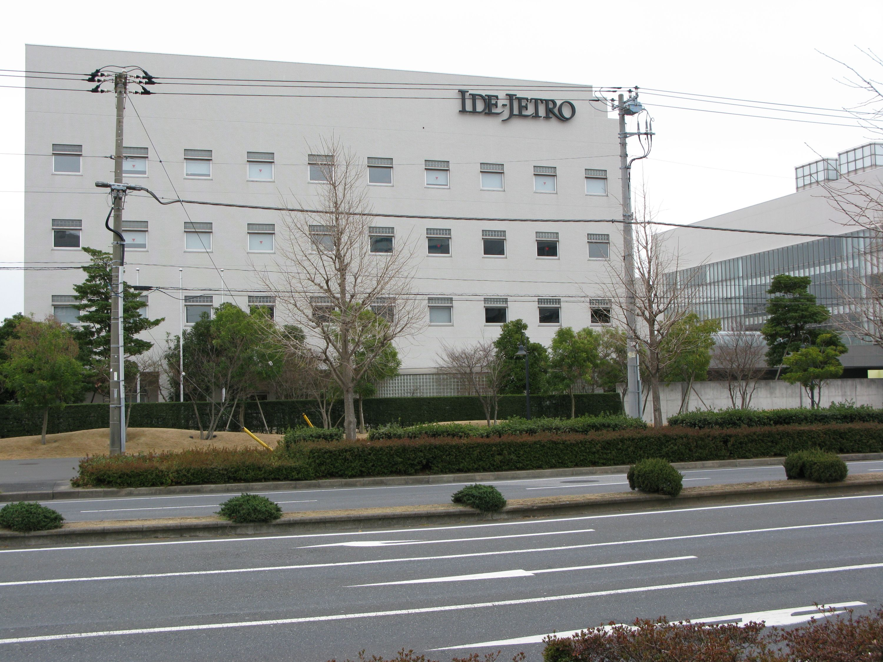 Institute of Developing Economies, JETRO, Japan